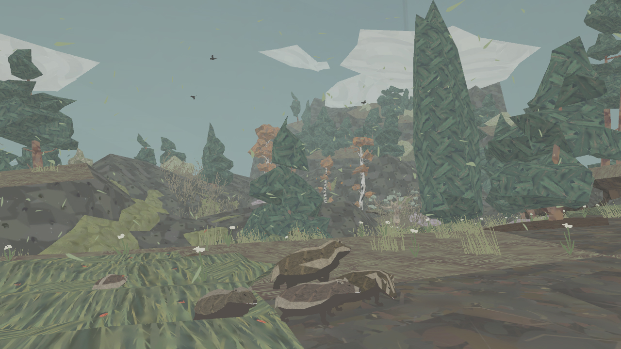 Shelter gameplay screenshot. The player leads her cubs through a field. Released in 2013, the game was developed by Might and Delight.